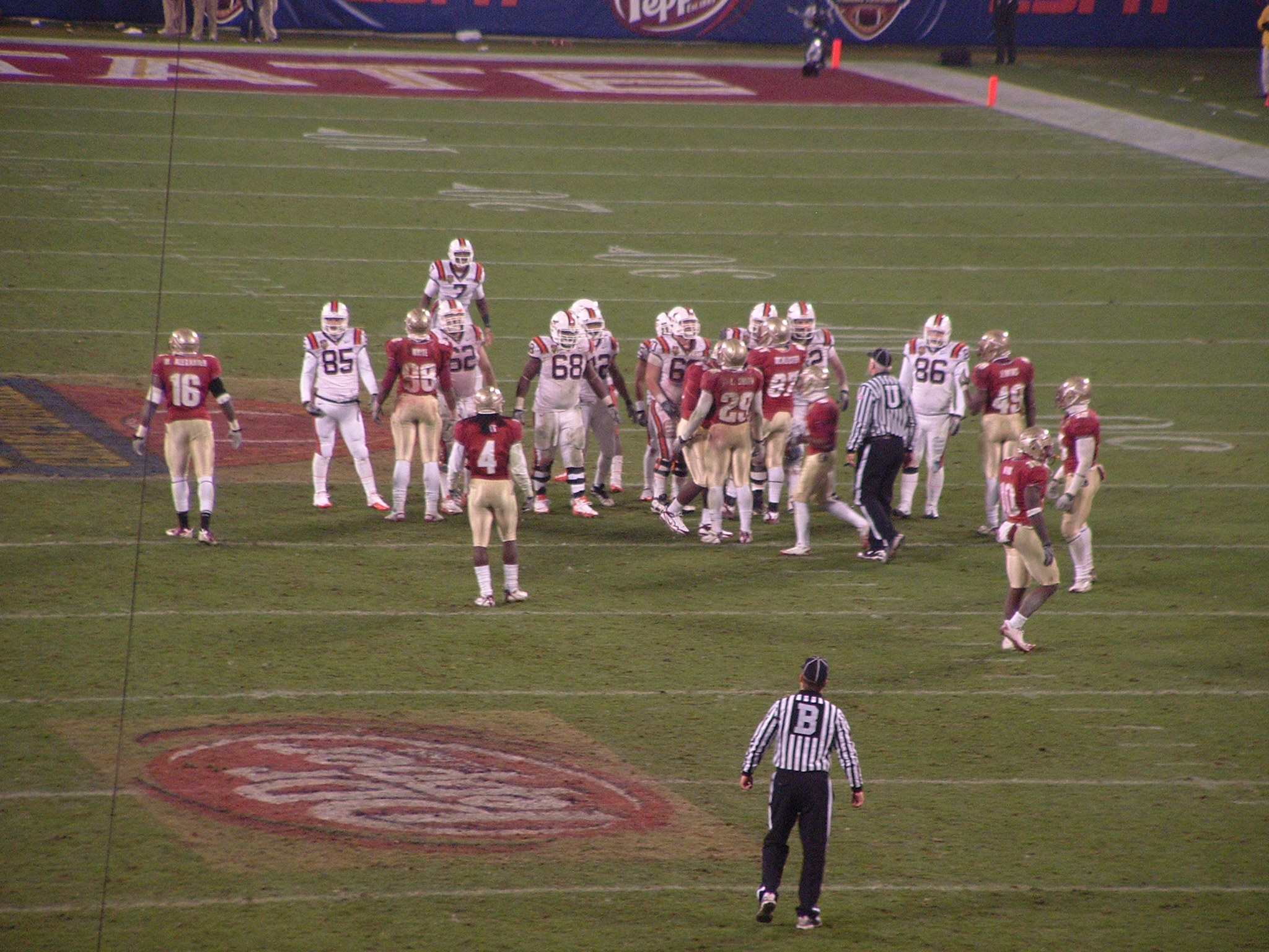 Last play of the 2010 ACC Championship Game